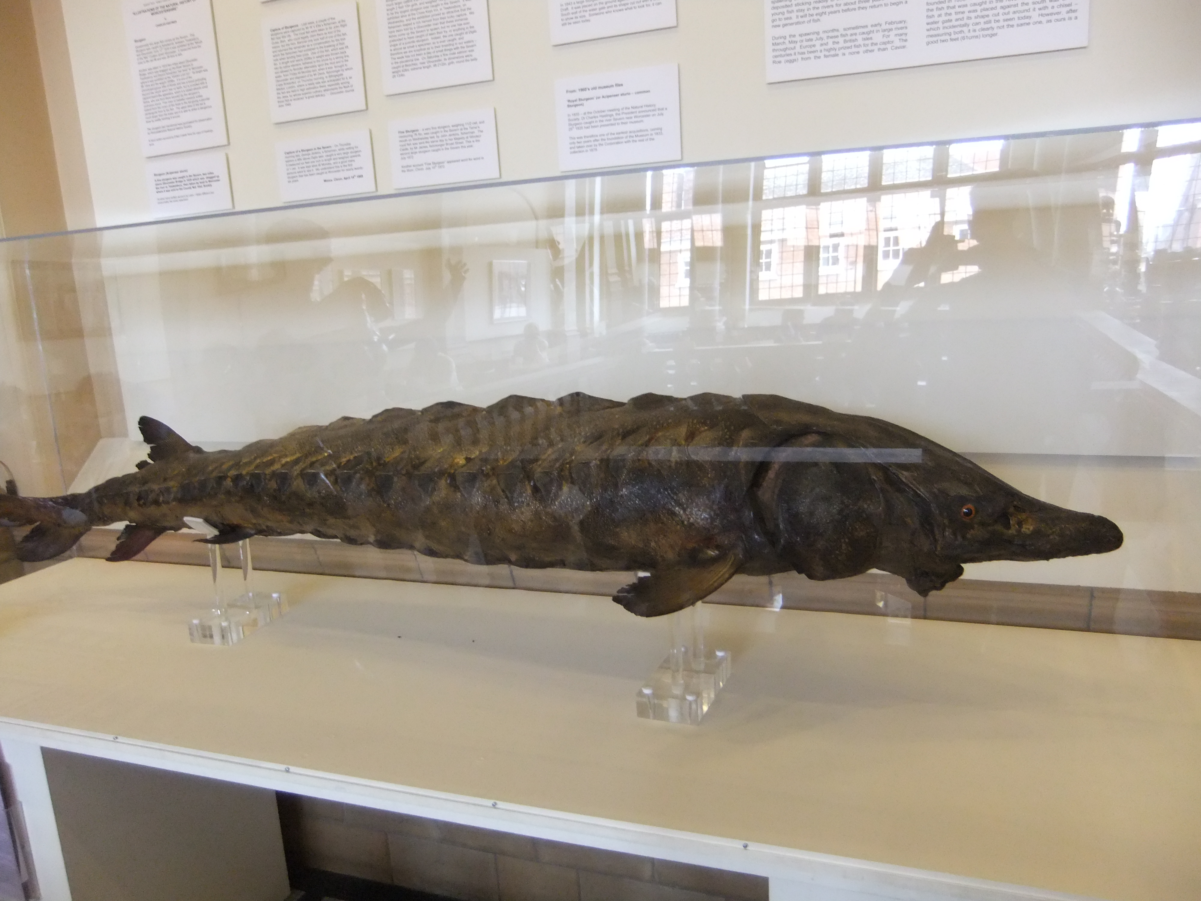 Encased fish at Worcester City Art Gallery & Museum, England.